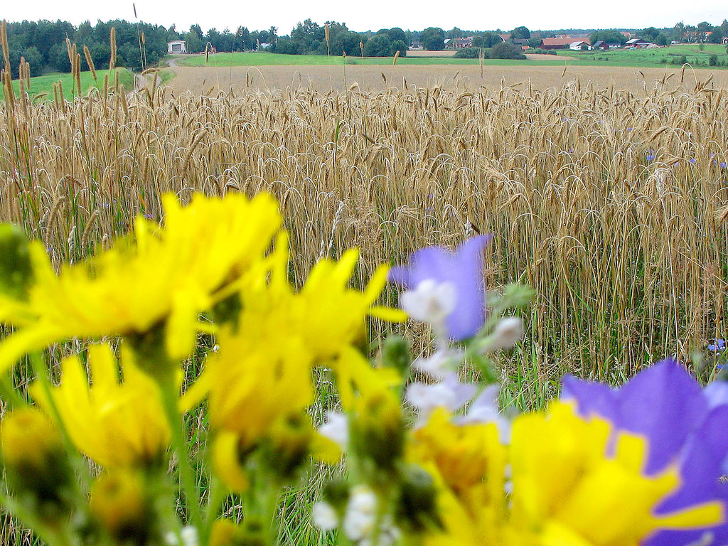 The surroundings of Bockara, Sweden